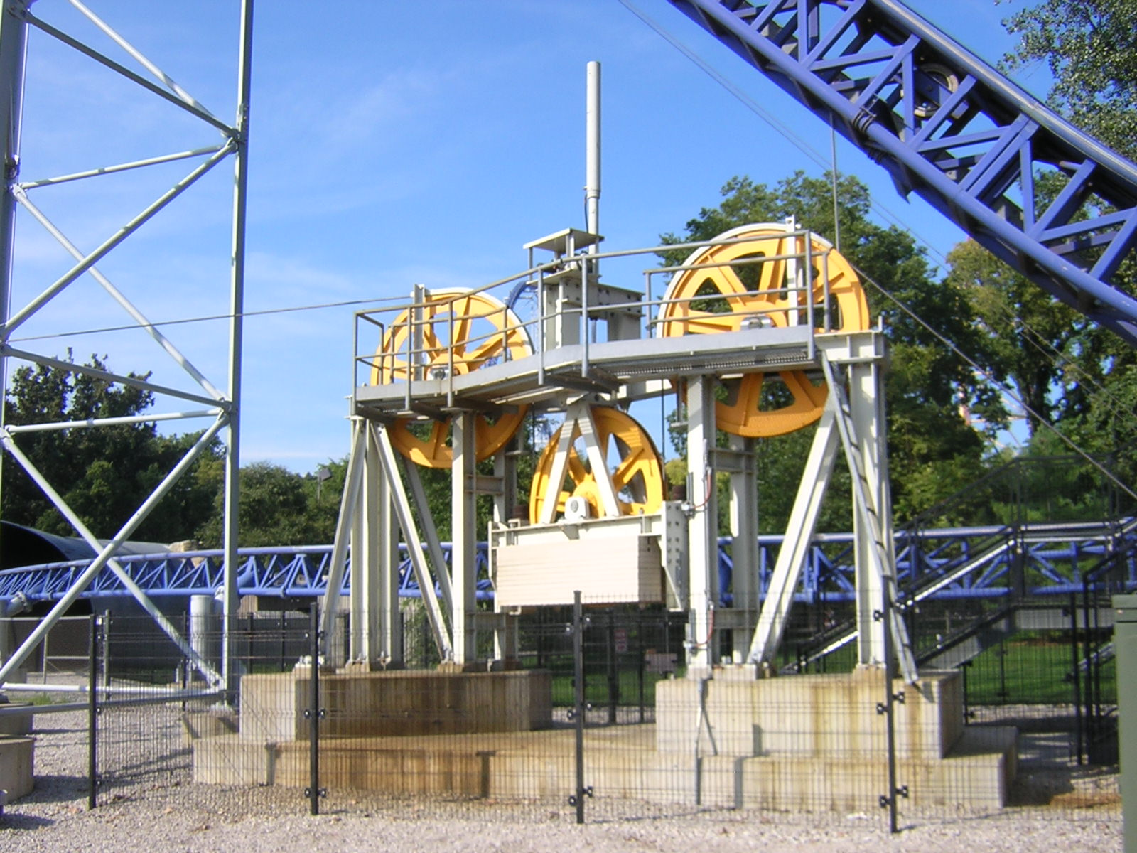 A scene from Cedar Point, an amusement park located in Sandusky, Ohio on Lake Erie. Cedar Point is owned and operated by Cedar Fair, L.P.. This is a view of the cable tensioner reels on Millenium Force